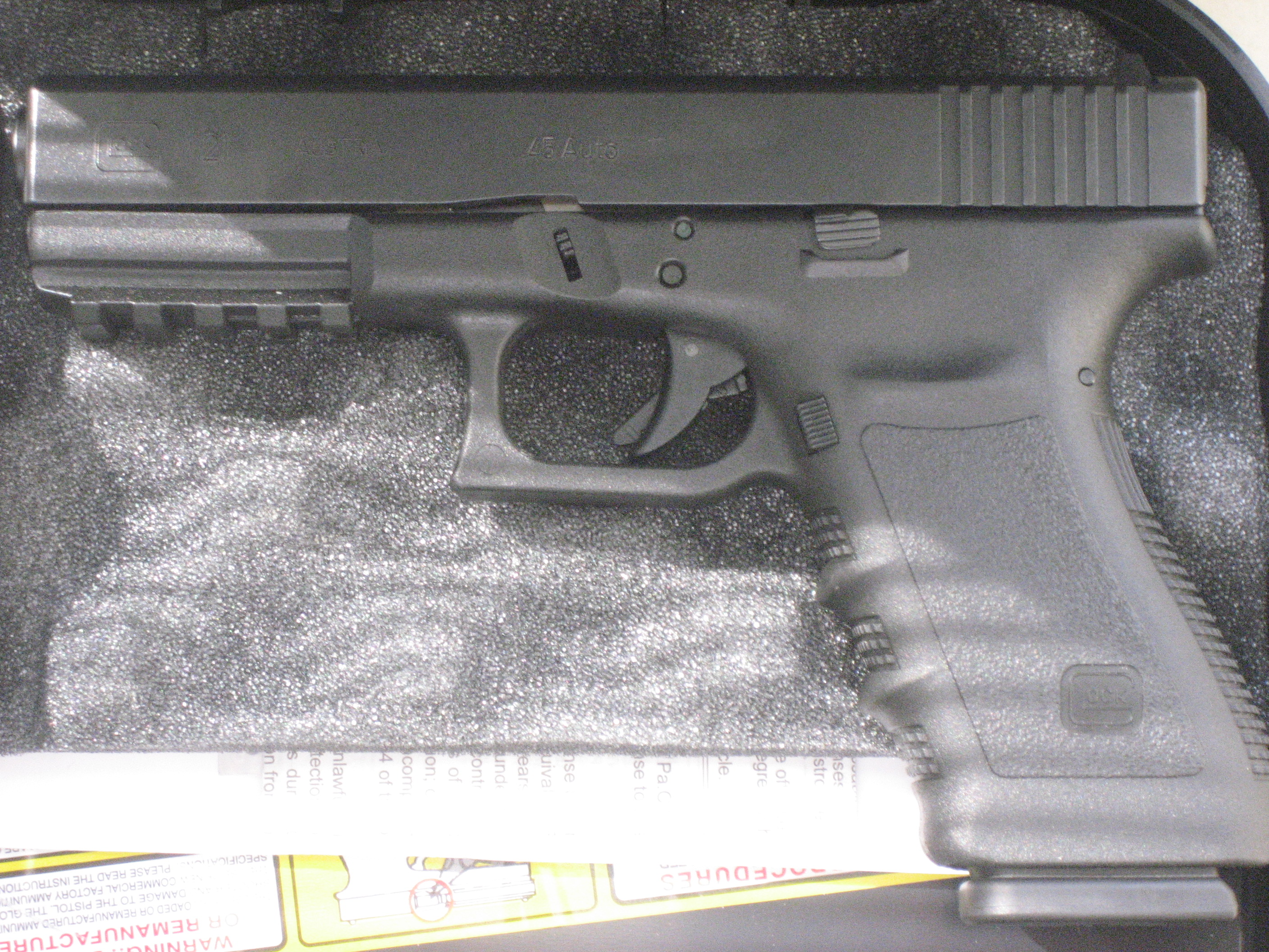 glock 21 " sf " variant